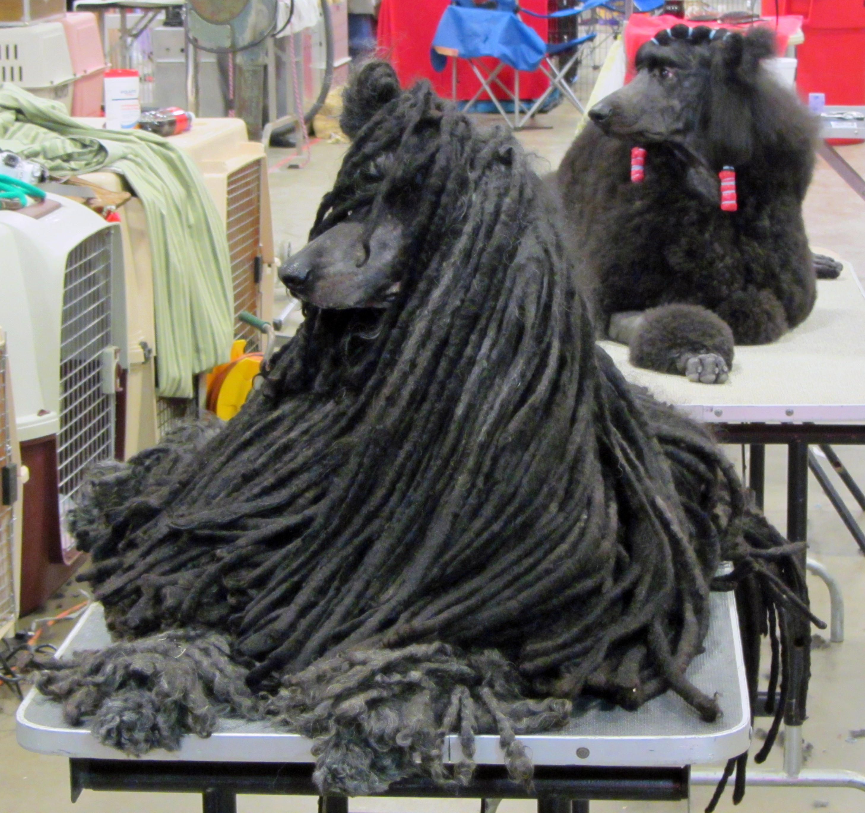 Corded Standard Poodle. AKC Magnolia Christmas Classic Cluster. Jackson, Mississippi.